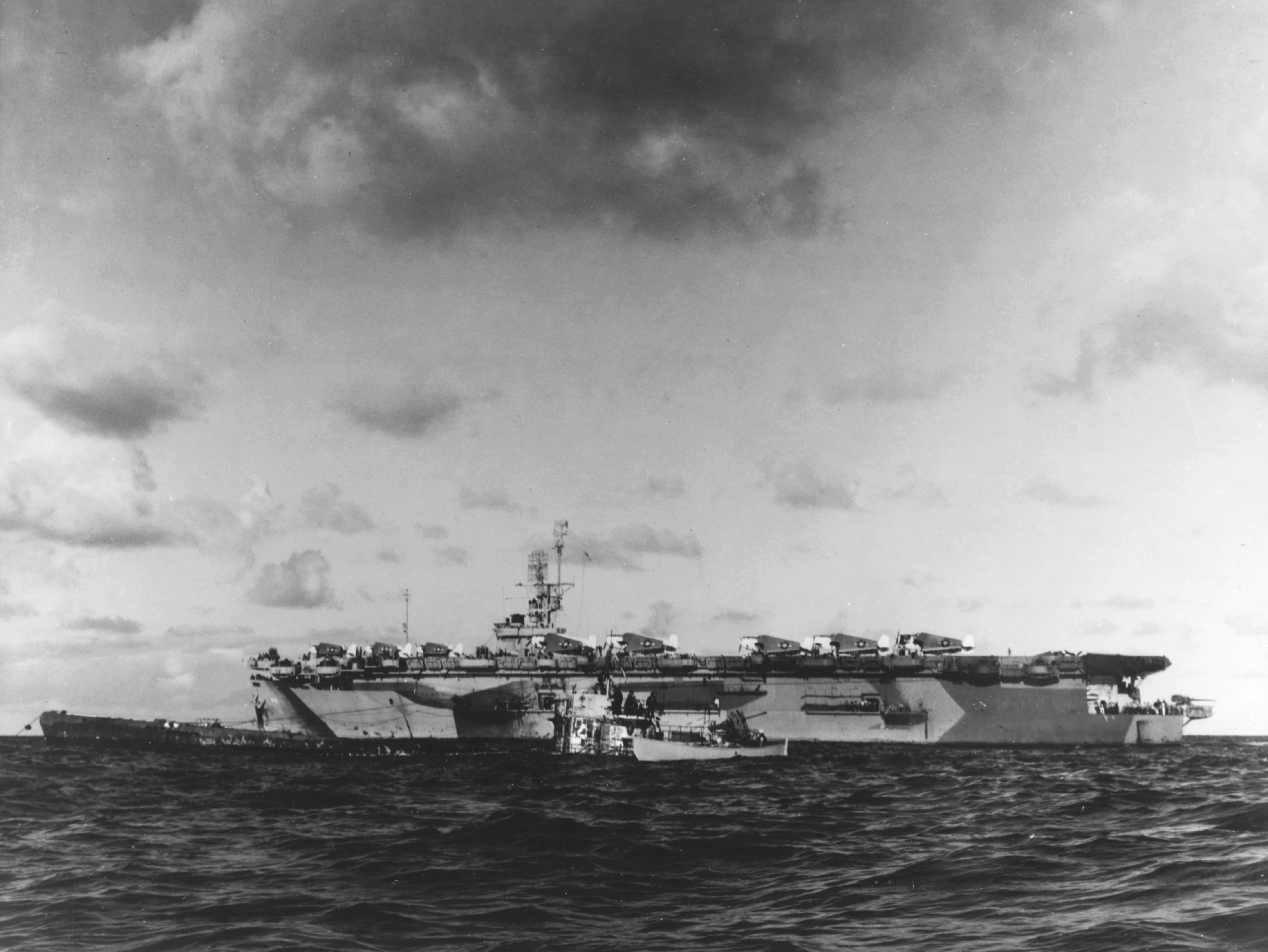 The German submarine U-505 lies near the escort carrier USS Guadalcanal (CVE-60) on 4 June 1944, after U.S. Navy salvage parties stopped her from sinking and rigged a tow line. Guadalcanal is painted in Camouflage Measure 32, Design 4A.